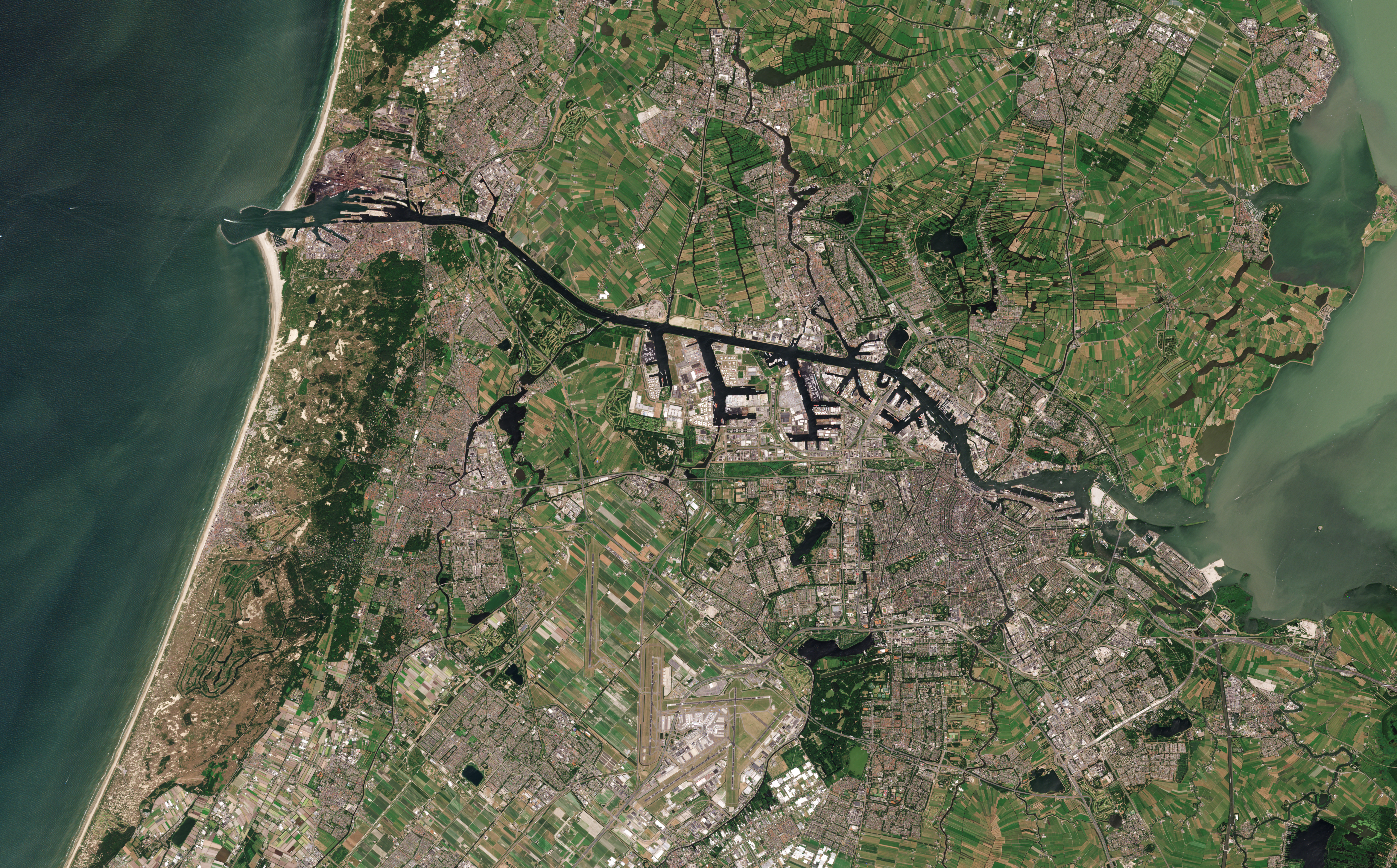 Date: 2018-06-30 Sensor: MSI on Sentinel-2A Resolution: 10m RGB Composites: True color, Band 4-3-2